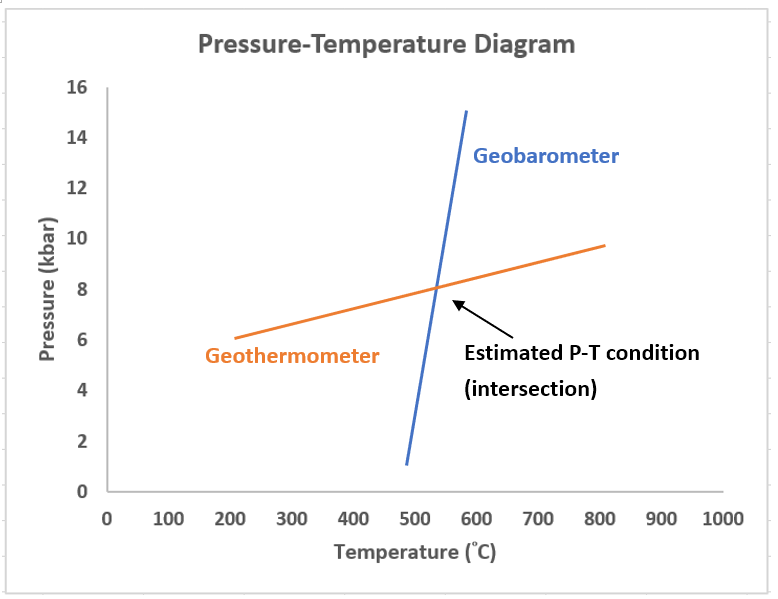 Geothermobarometry1